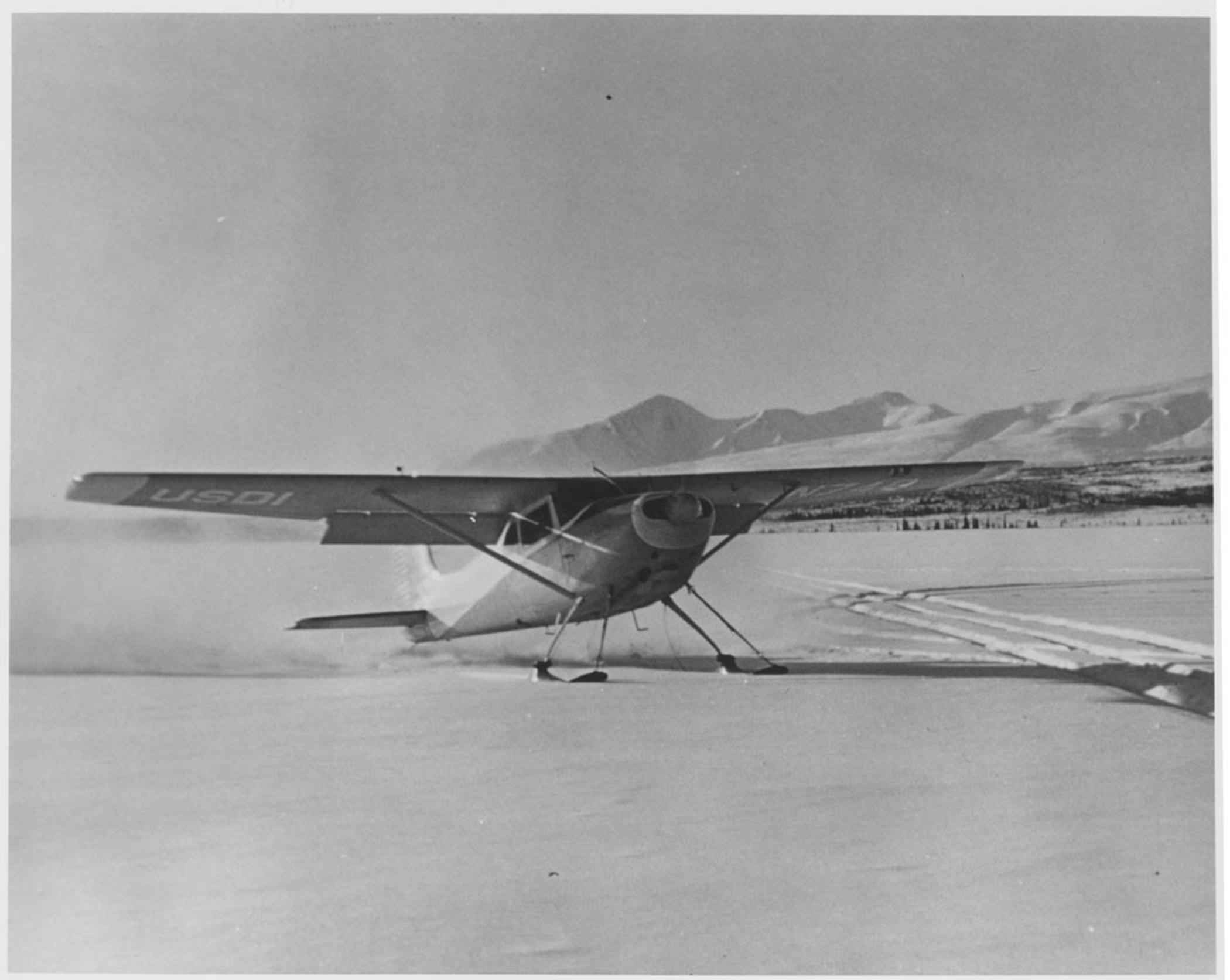 Image title: Small biplane landing on snow Image from Public domain images website